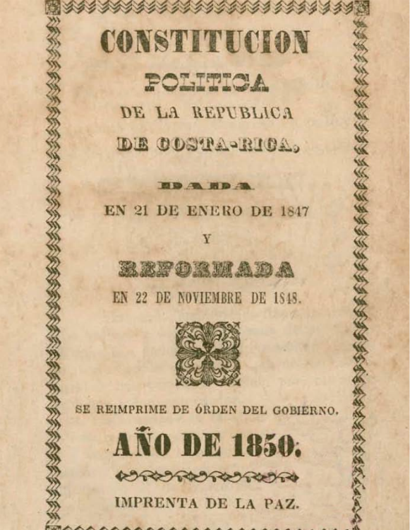 Cover Constitucion de Costa Rica de 1847 at National Archive of Costa Rica